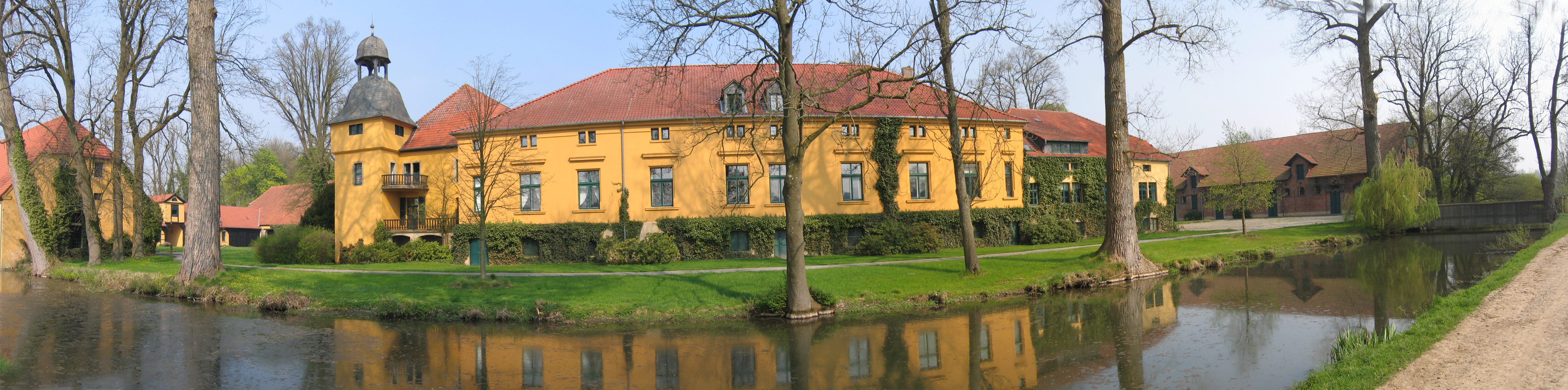 Gut Böckel in Rödinghausen, District of Herford, North Rhine-Westphalia, Germany.